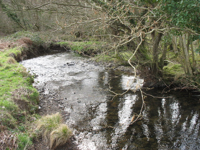 Afon Carrog from the footbridge. Below the footbridge, Afon Carrog enters a deeply incised valley. 729321